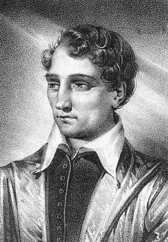 French physician, poet, and playwright Jacques Grévin (1538-1570). From an original lithograph dated 1561.